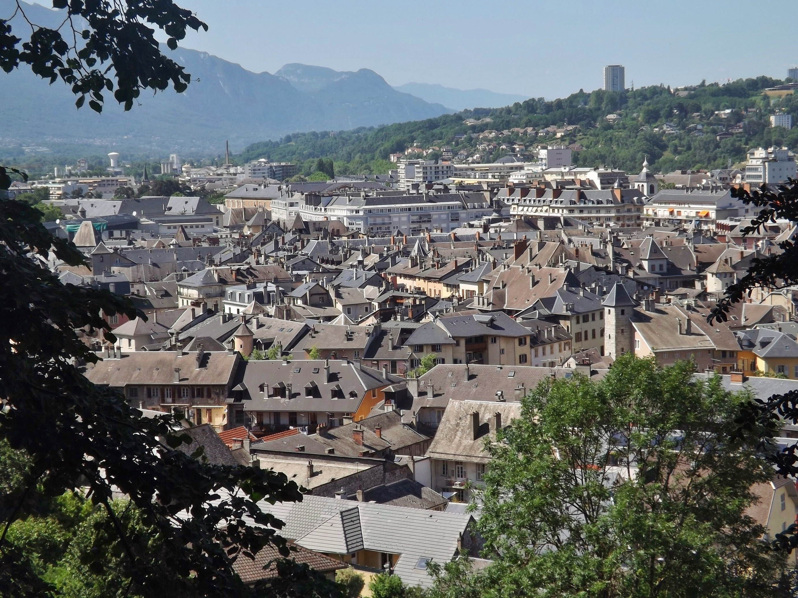 Panoramic sight on the roofs of the French city of Chambéry historical center, in Savoie, France.